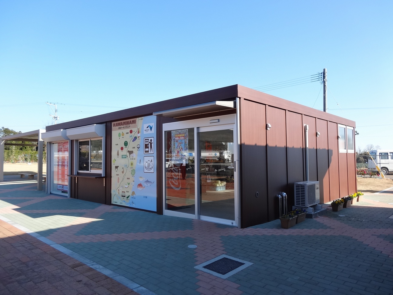 Kawaminami Rest Area (Higashi-Kyushu Expressway - Kawaminami Town, Kumamoto, Japan)